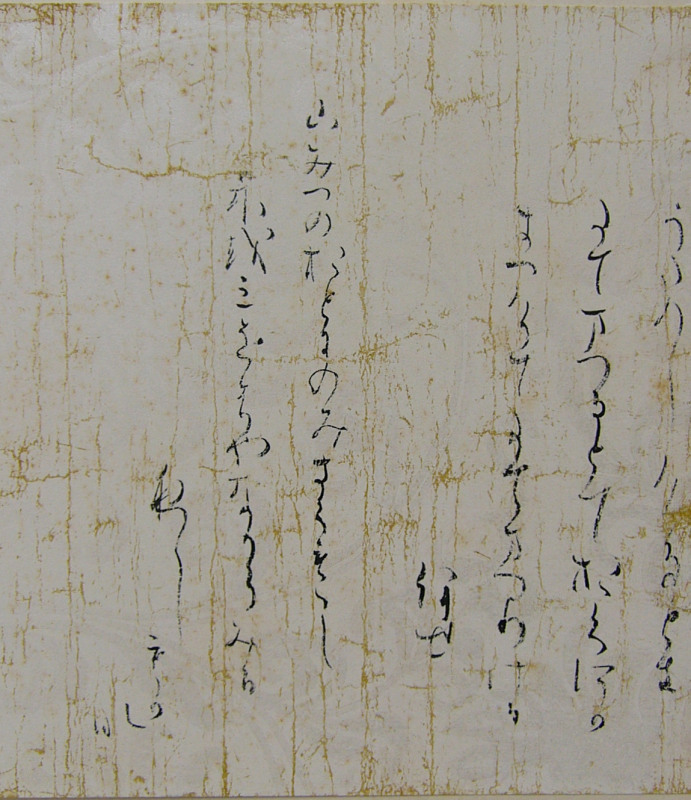 HON'AMI-GIRE detail, calligraphy in 12th century in Yomei Bunko Foundation, Japan, Ink on Ornamented Paper 16.6cm height